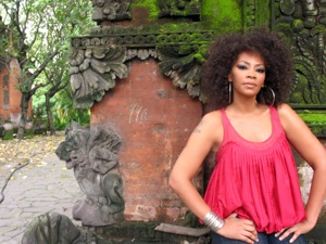 Jody Watley Indonesia 2008